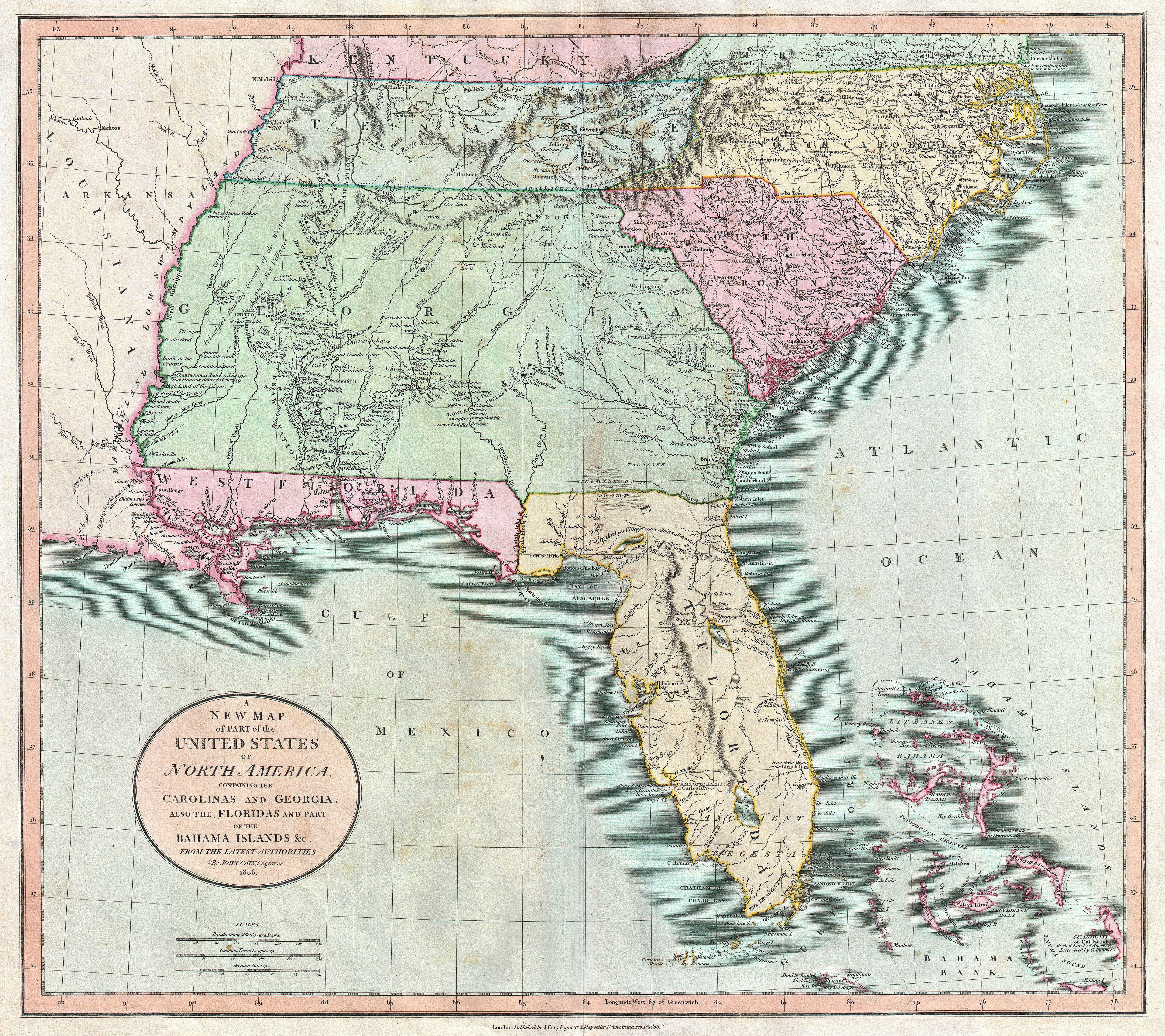 Published by John Cary in 1805, this is one of the most interesting and attractive maps of the American southeast to appear in the first years of the 19th century. Covers from Kentucky and Virginia South include all of modern day North Carolina, South Carolina, Tennessee, Georgia, Alabama, Mississippi and Florida. Georgia is shown extending westward as far as the Mississippi River despite the creation of the Mississippi Territory in 1798. Florida is divided at the Appalachicola River into eastern and western sections. West Florida, ostensibly part of the Louisiana Purchase, was claimed by the Spanish and remained under their control until 1812. (See West Florida Controversy.) Southern Florida is labeled “Ancient Tegesta” according to the 18th century convention. Tegesta is a name of somewhat mysterious origins that appears on maps of Florida as early as the 1600s. It most likely refers to a vanished American Indian tribe or abandoned village located near what is today Miami. Offers copious notations and comments throughout, most of which are extremely interesting. Identifies the locations of numerous American Indian nations including the Creeks, the Chicksaw Nation, the Cherokees and others. Notes the abandoned Applachee Villages in northern Florida. Also offers notes on American Indian hunting grounds, springs, river navigation, roads, swamps, forts and the sites of important battles. All-in-all a wonderful example of a rare and important map of the American southeast. Prepared in 1806 by John Cary for issue in his magnificent 1808 New Universal Atlas .